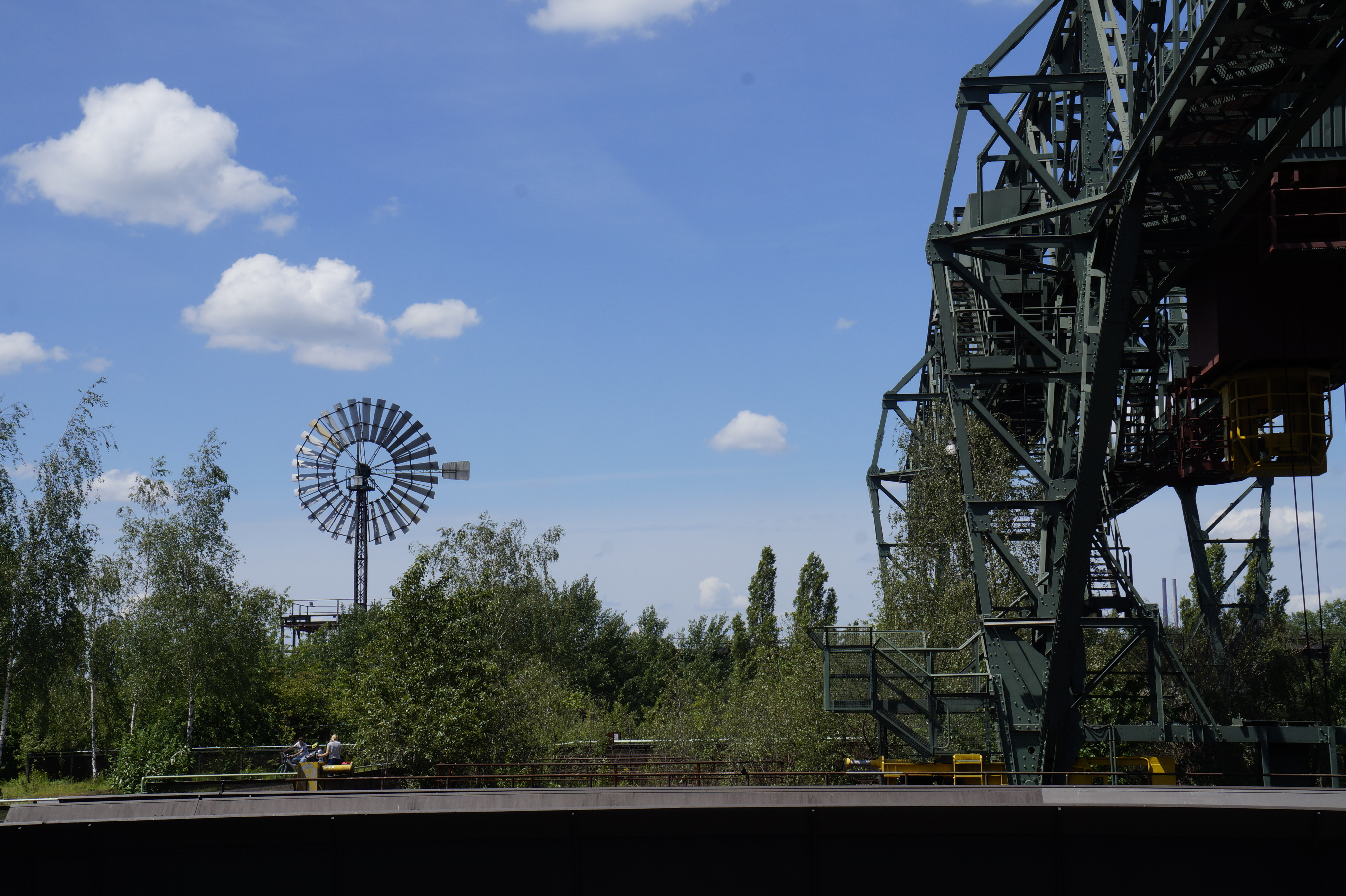 Industrial Heritage